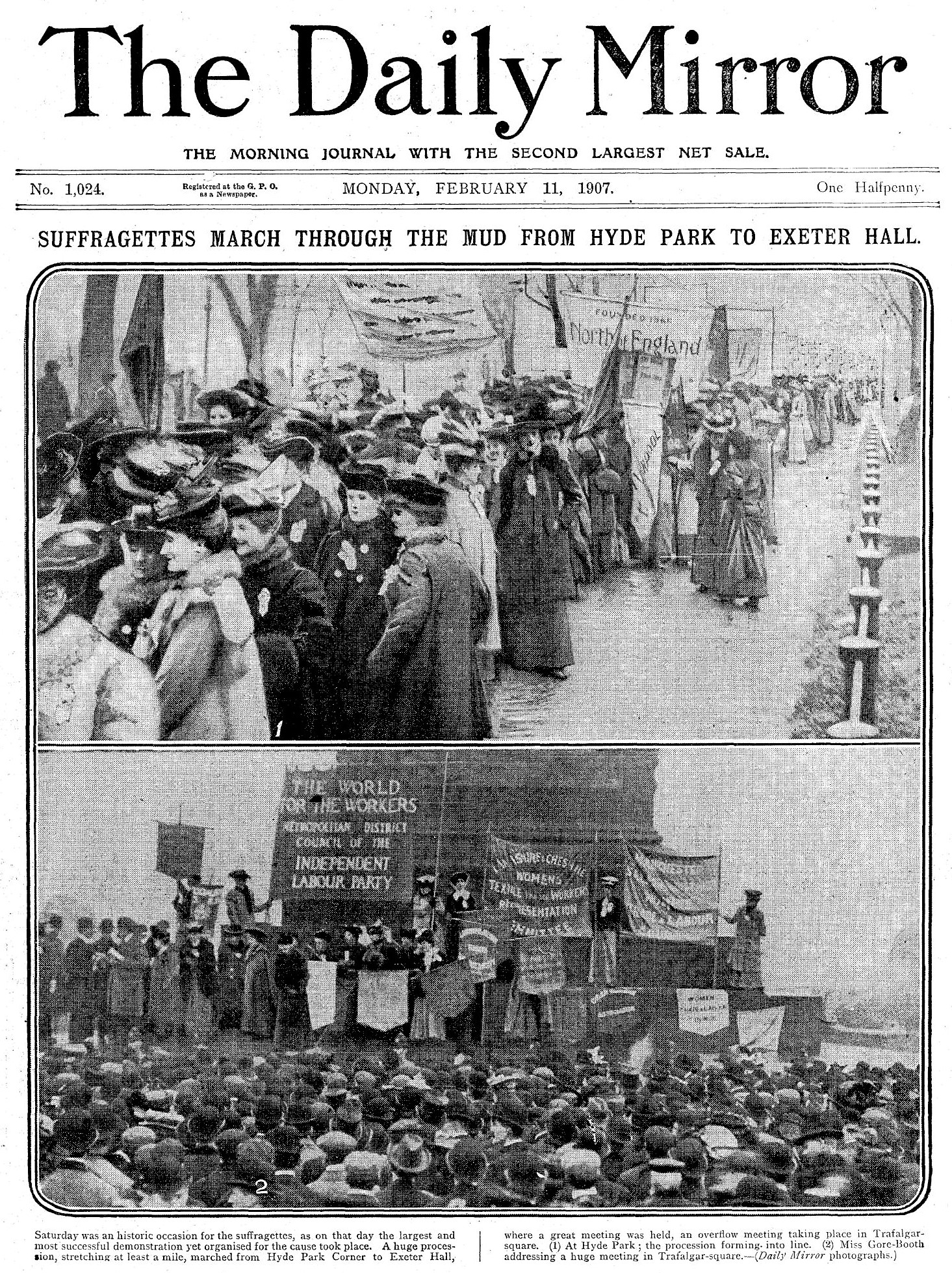 The front page of The Daily Mirror, reporting the Mud March of 9 February 1907